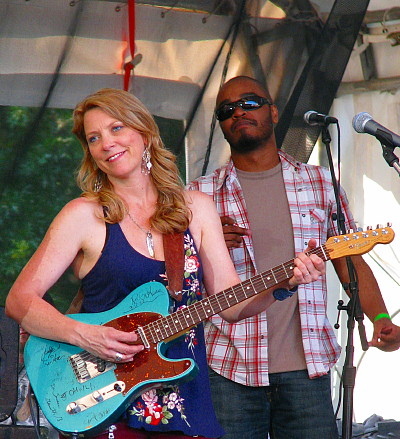 Susan Tedeschi at the Appel Farm Music Festival, June 2012